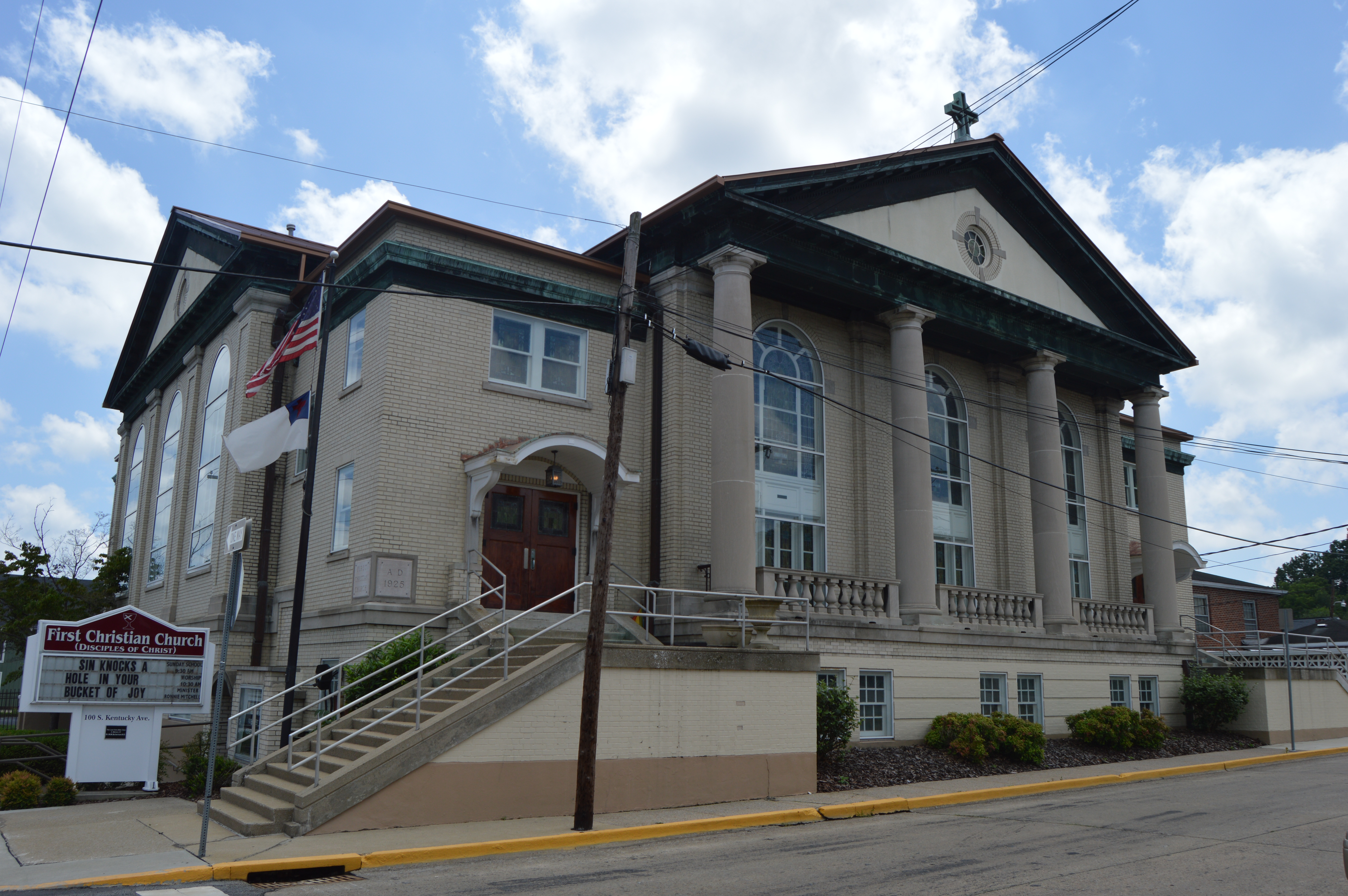 Front and northern side of the First Christian Church, located on the southwestern corner of Kentucky Avenue (U.S. Route 25) and First Street in Corbin, Kentucky, United States. Built in 1925, it is listed on the National Register of Historic Places.